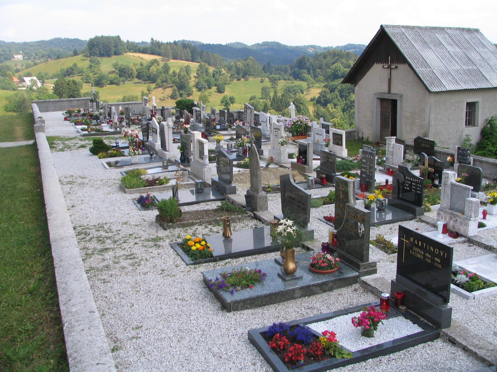 Village cemetery in Ponikve, Municipality of Tolmin, Slovenia